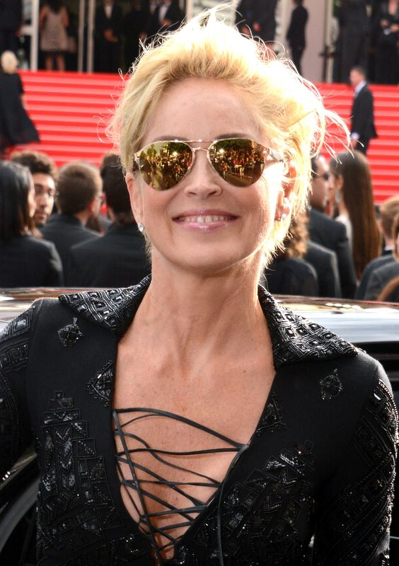 Sharon Stone at the Cannes film festival